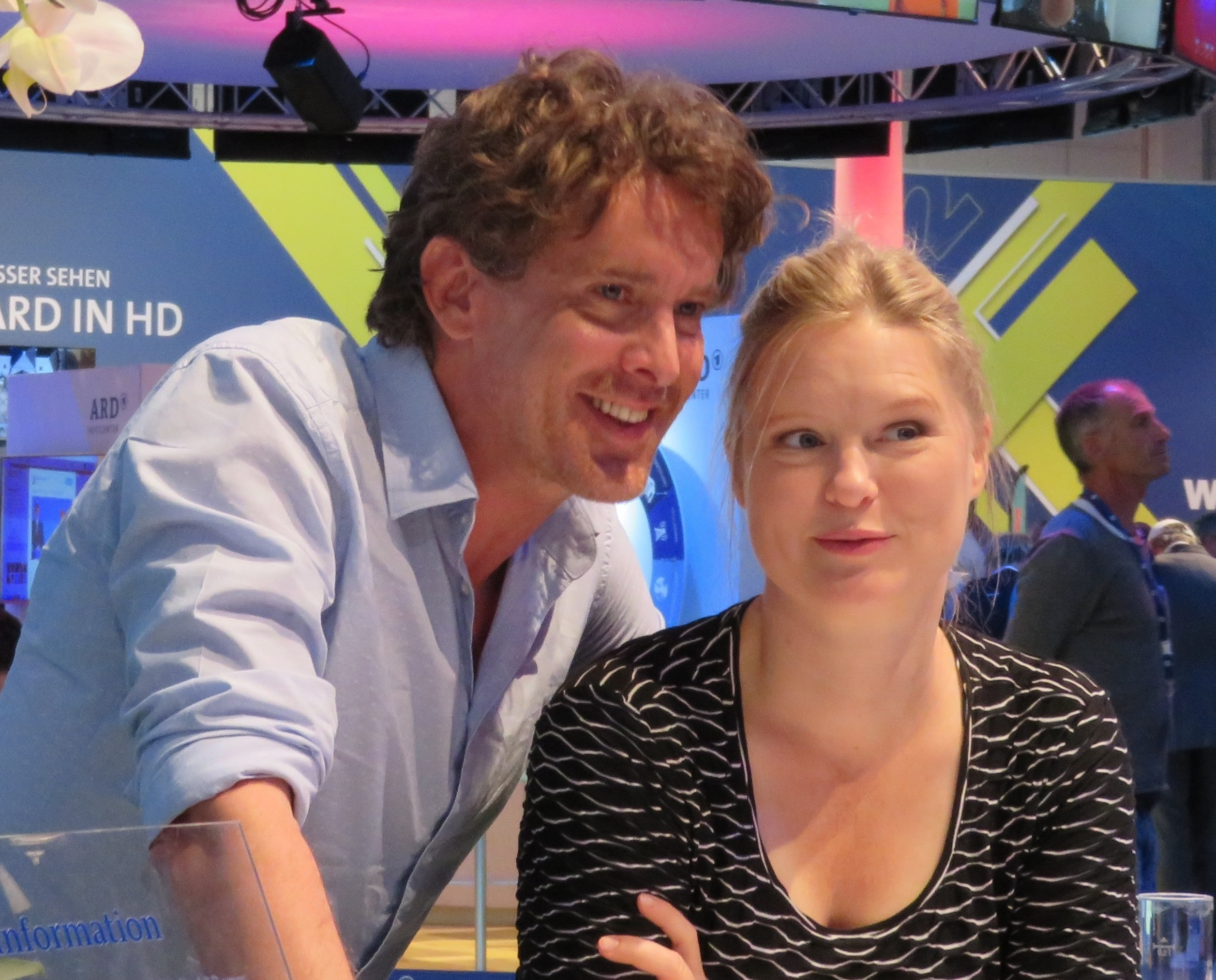 Actor Gunnar Solka and actress Sybille Waury from series "Lindenstraße" september 2017 at IFA.